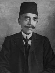 Ebrişimoğlu Mustafa Bey (Mustafa İbrişim)